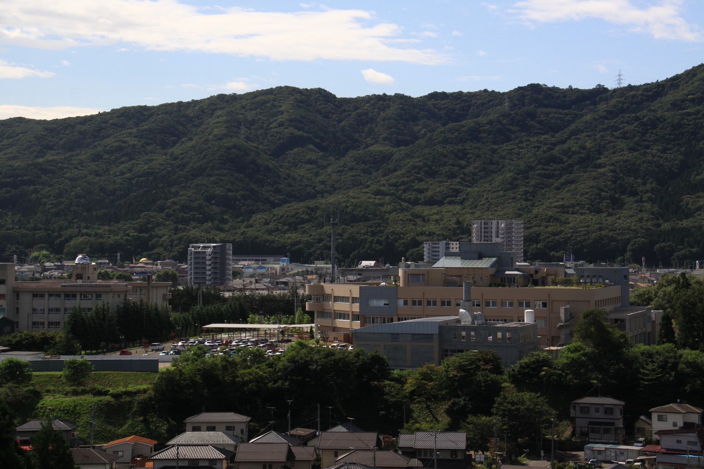 The whole view of Miyagi Children's Hospital. look from Imozawa.